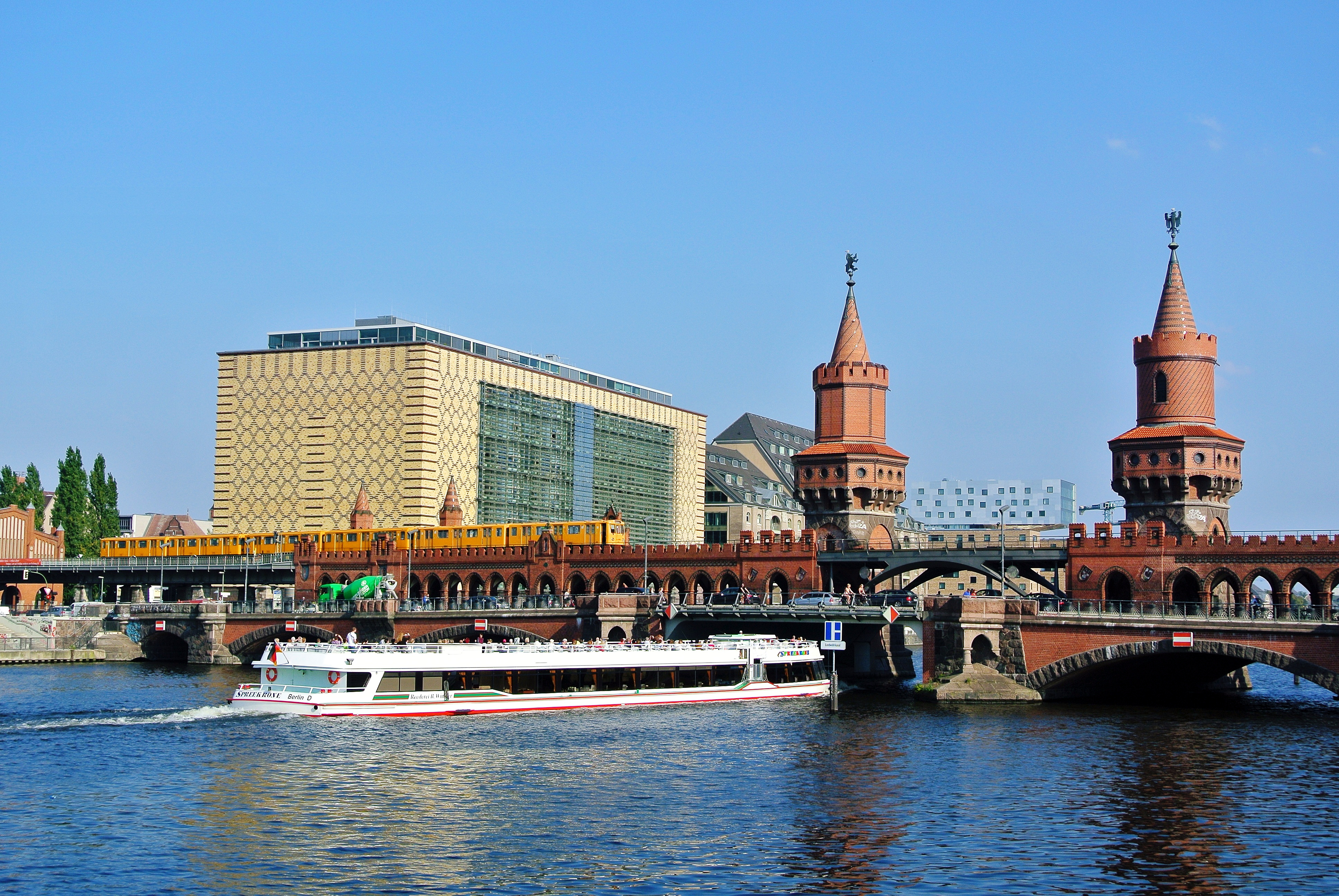 Oberbaum bridge